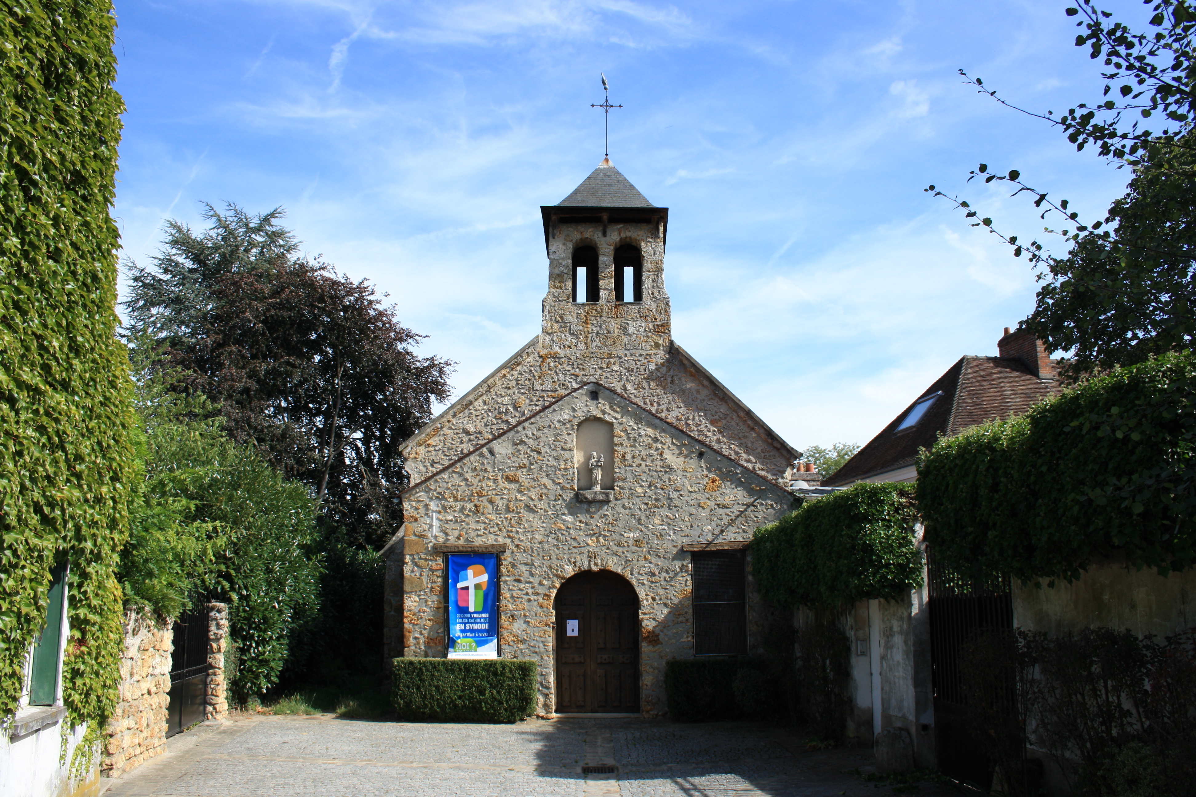 Church in Milon-la-Chapelle in the Yvelines department in France.